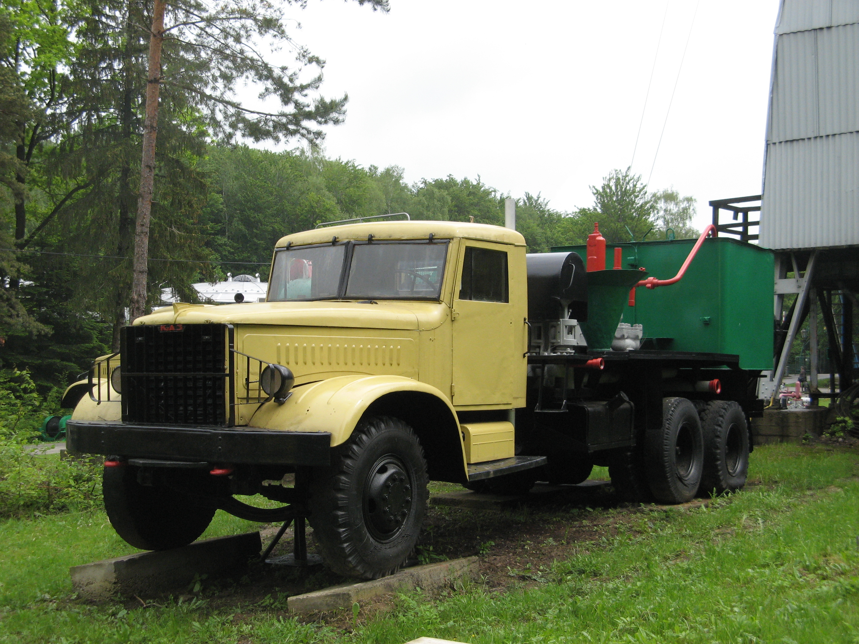 KrAZ 219 truck in a Polish museum in Dukla.